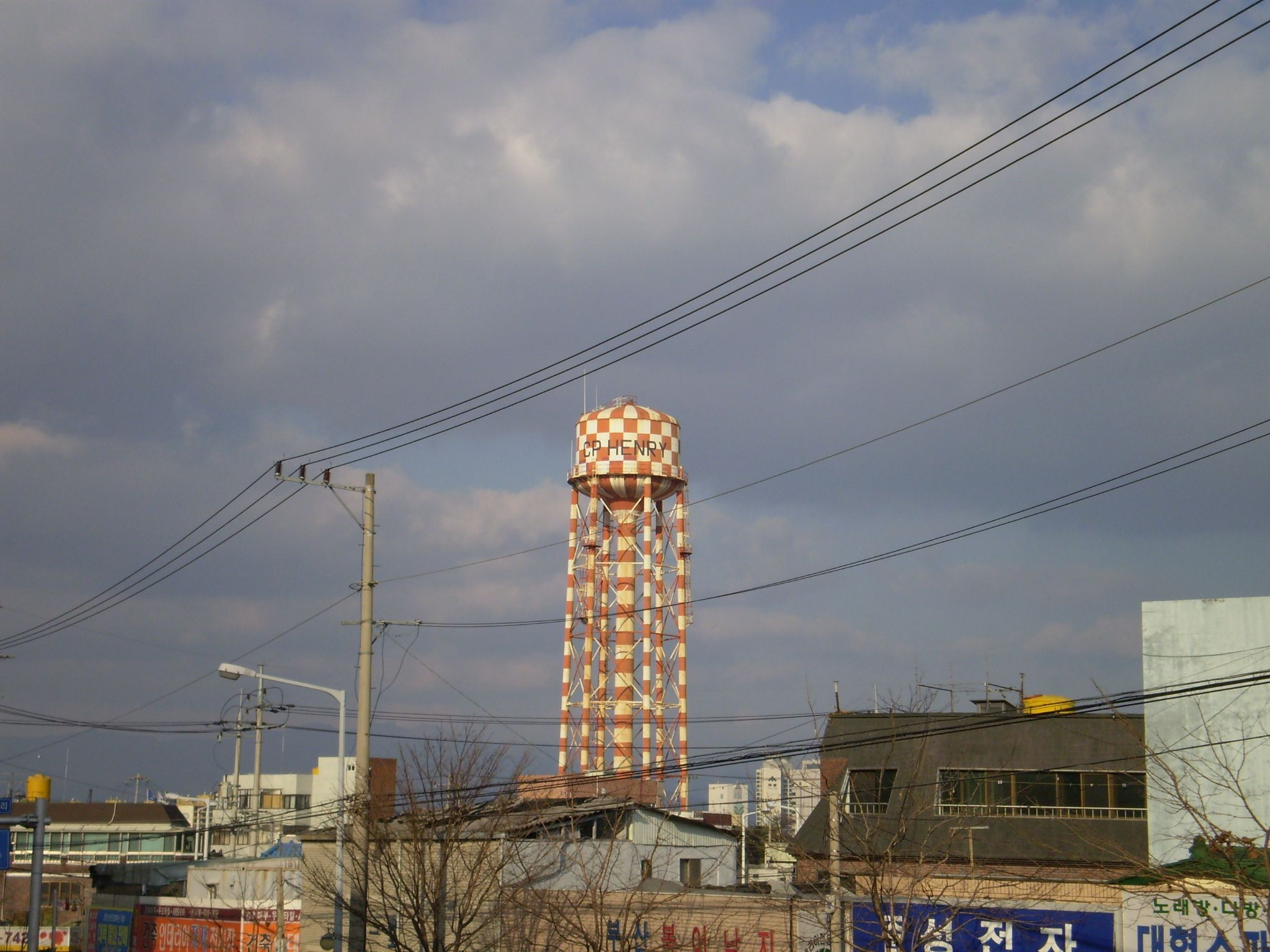 The Camp Henry watertower overlooking Nam-gu, Daegu, South Korea.